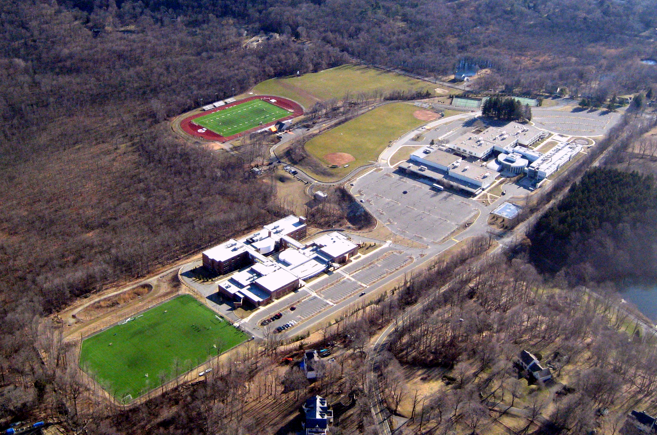 Ridgefield High School and Scotts Ridge Middle School in Ridgefield, Connecticut from the air